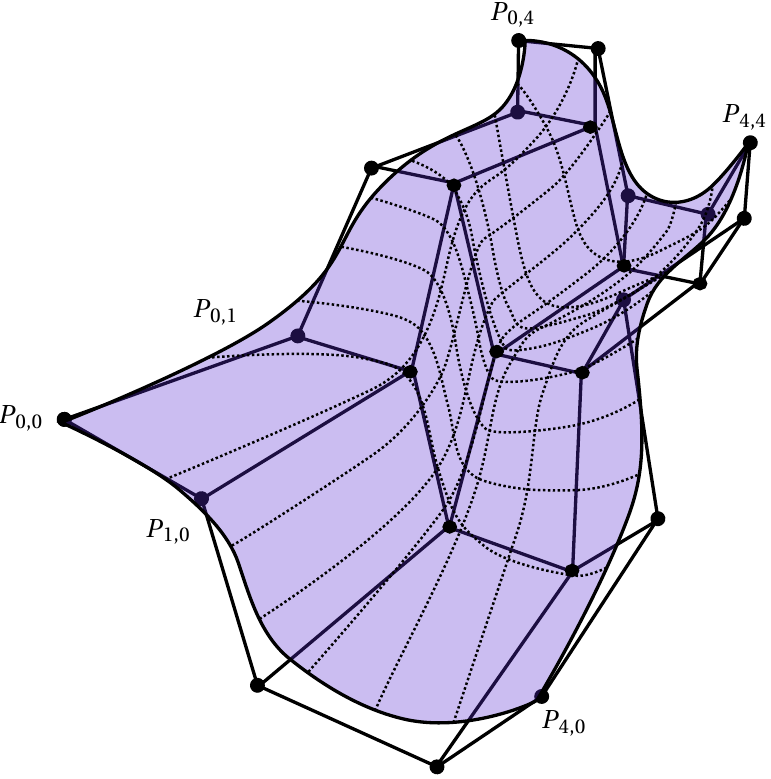 Surface NURBS controlée par un réseau